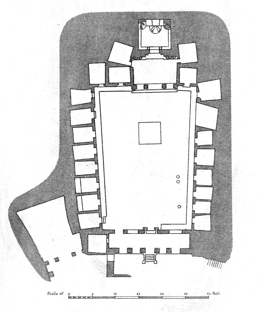 Cave 17 plan (formerly called in the 19th century cave 15)